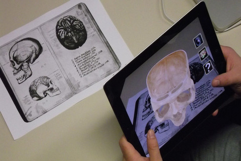 app iSkull, an augmented human skull